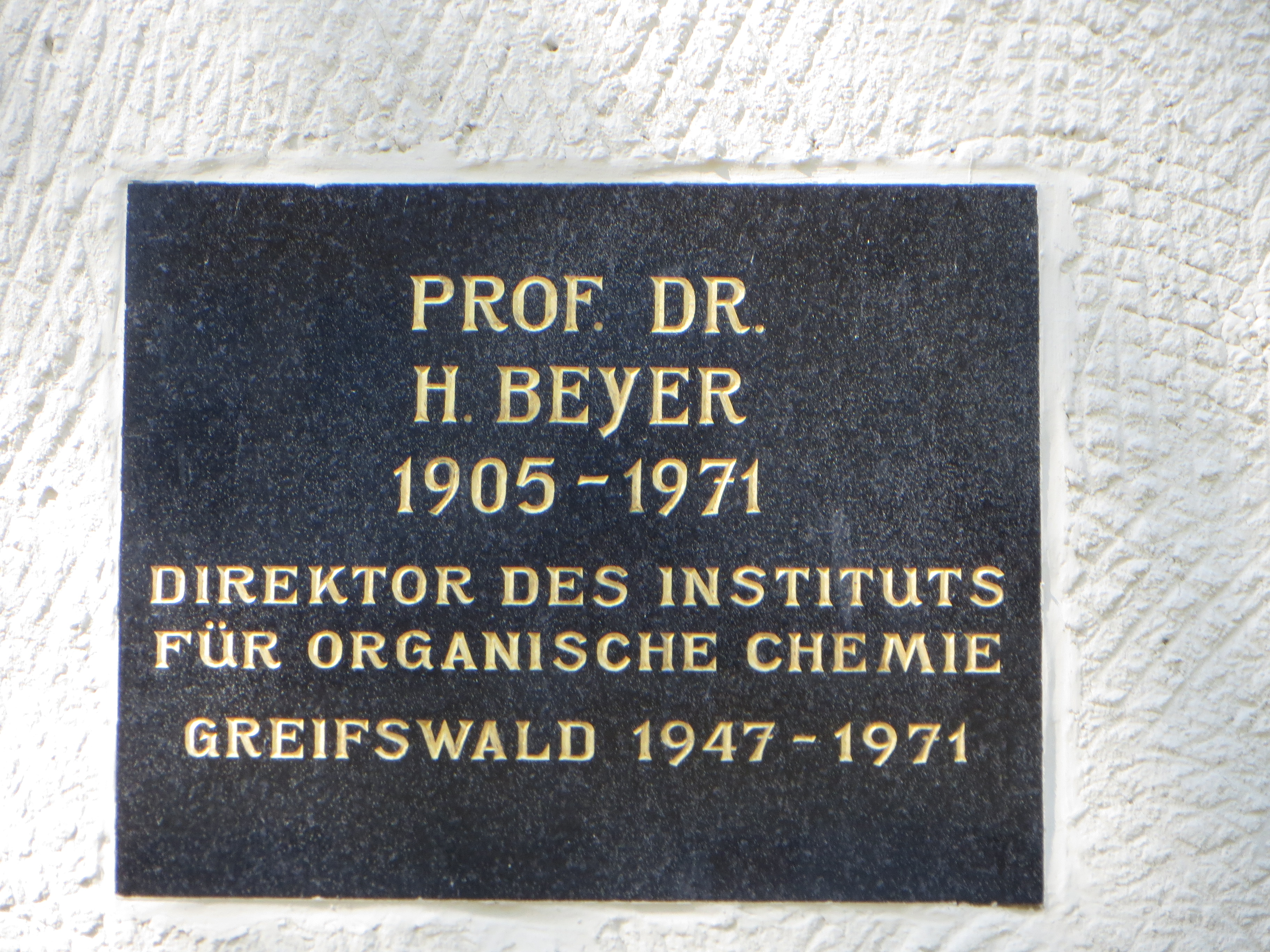 Ellernholzstr. 4, former Institut für Organische Chemie, plaque commemorating Hans Beyer